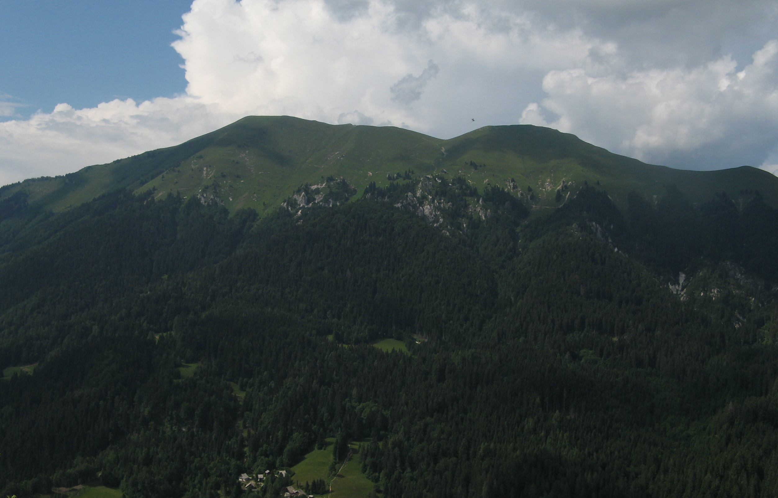 Golica, mountain in the Karavanken Alps as seen from the top of Črni vrh.